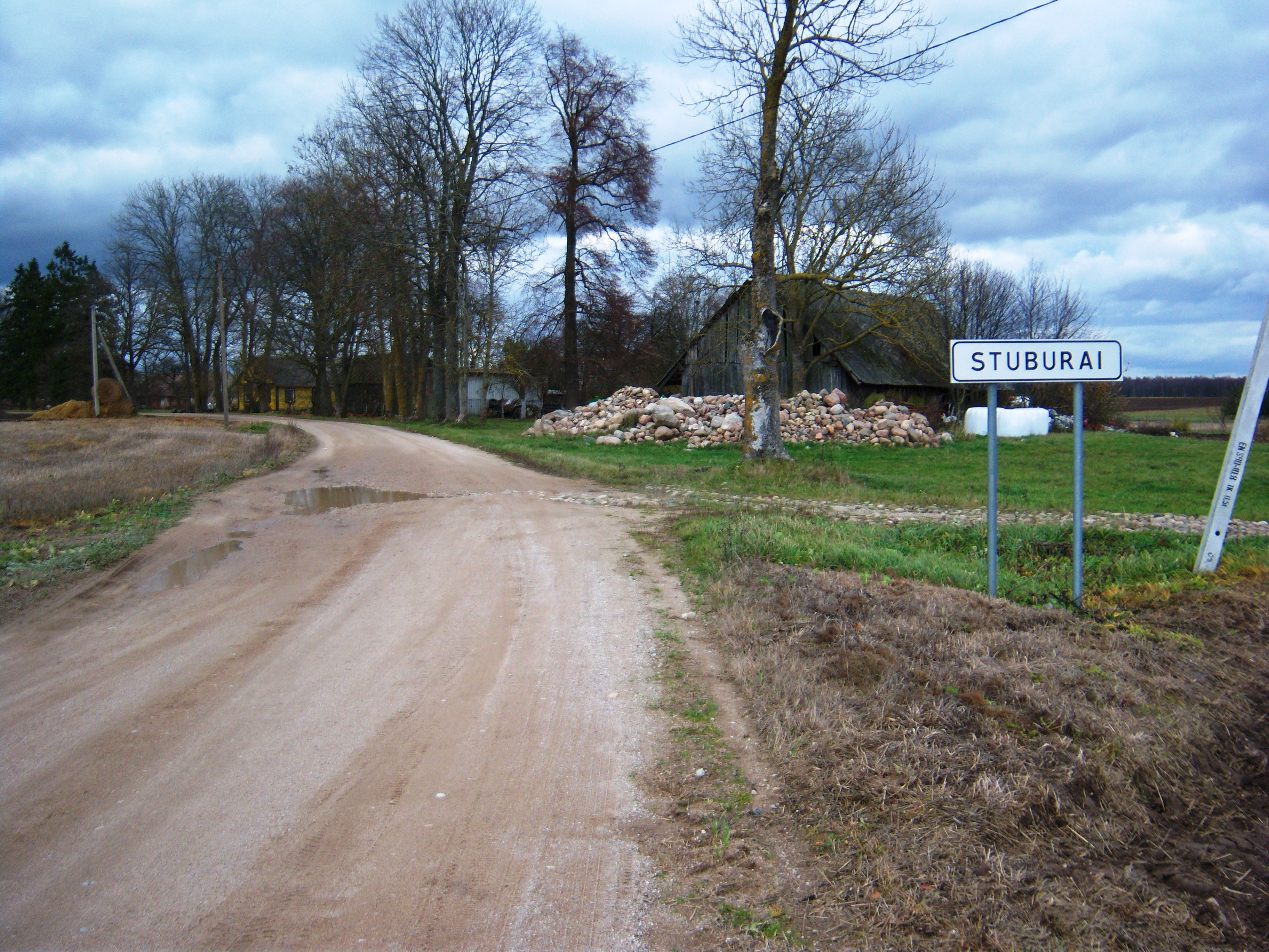 Stuburai, Kupiškis District, Lithuania